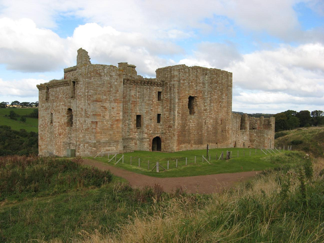 Crichton Castle, Midlothian, Scotland. View from the south-east.